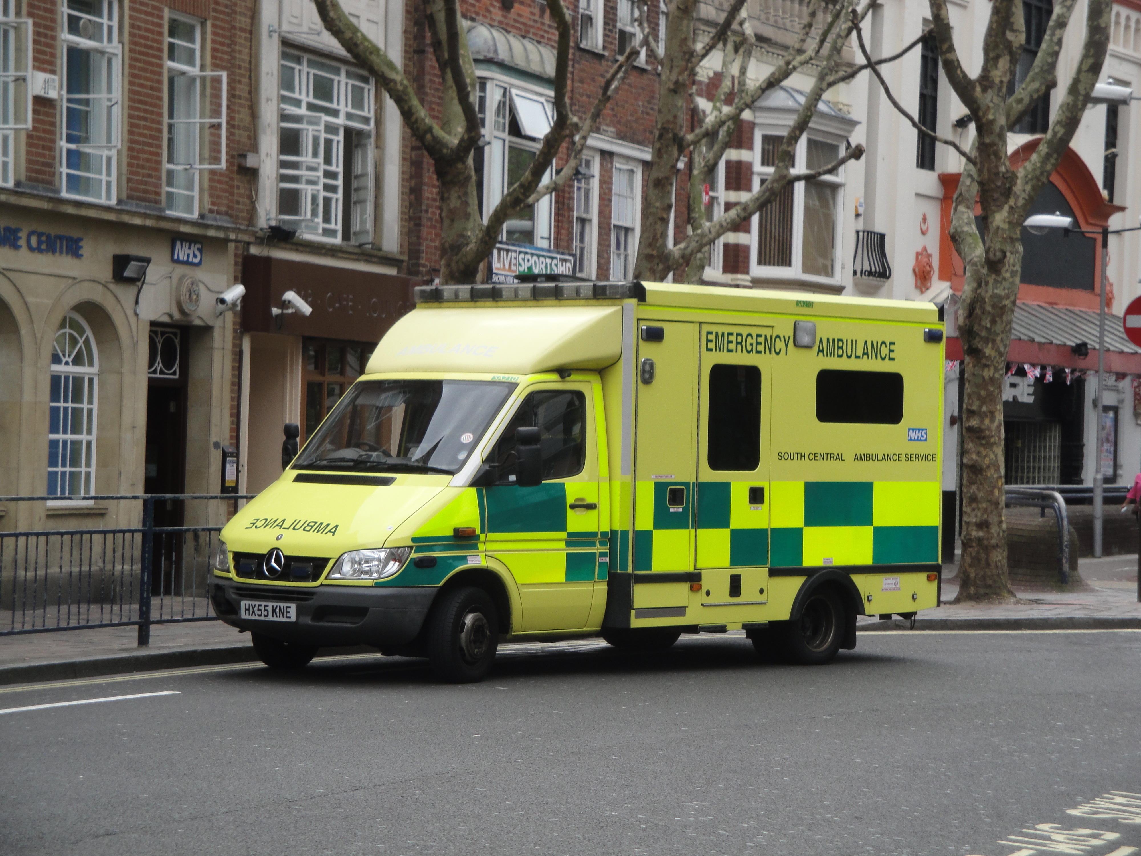 South Central Ambulance Service HX55 KNE, a Mercedes-Benz ambulance in Guildhall Walk, Portsmouth, Hampshire.